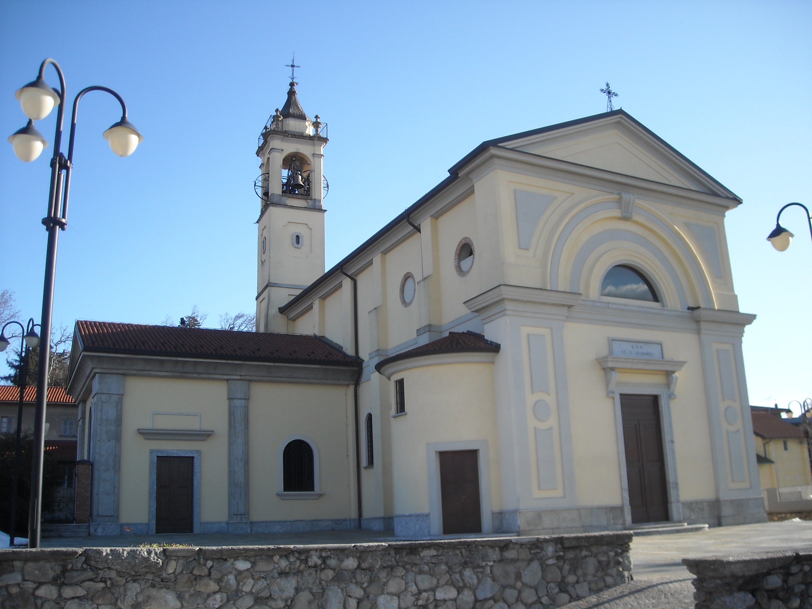 Parish church of St. Leonard, Capiago Intimiano, Province of Como, Lombardy, Italy.